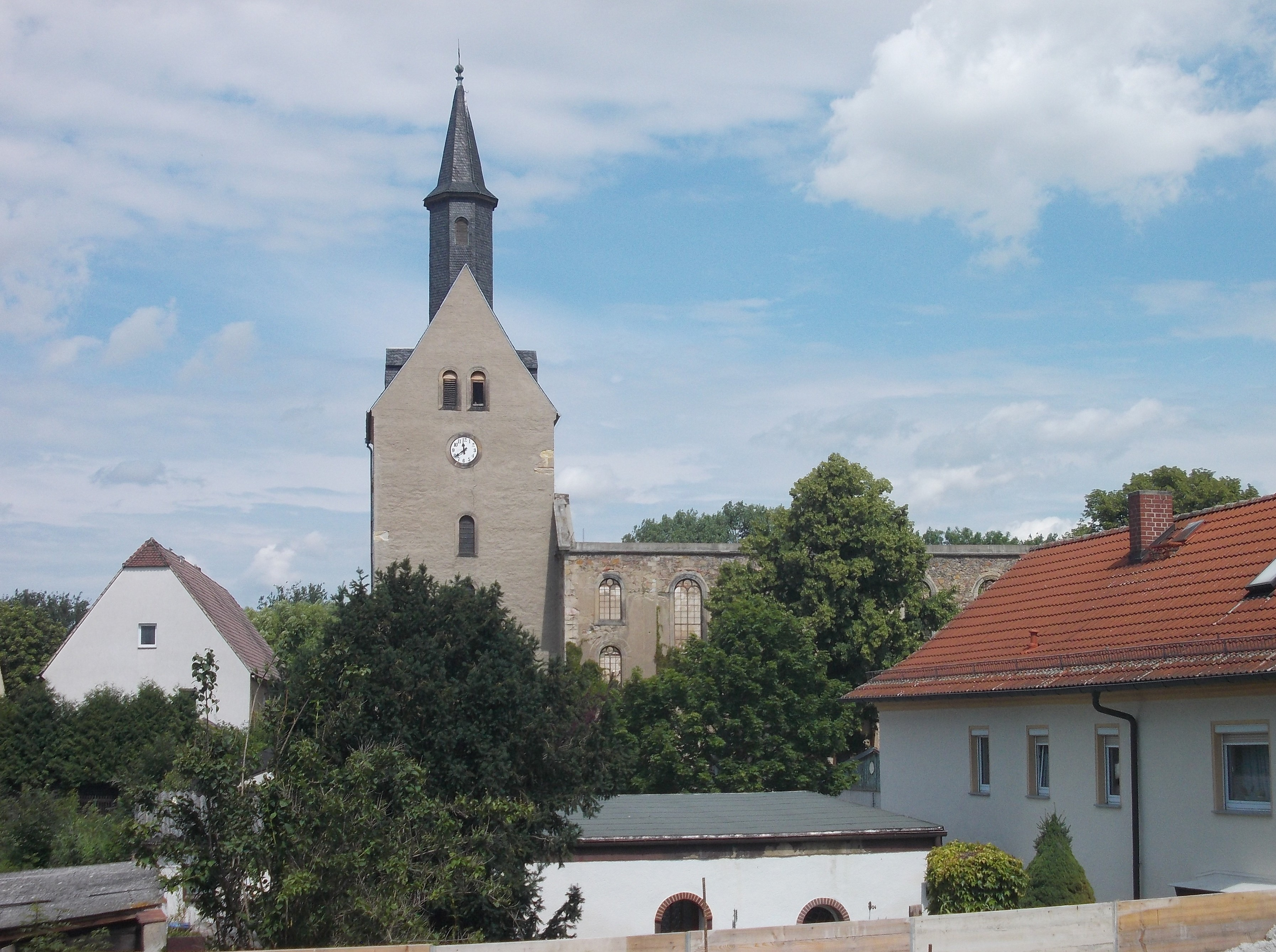 Mochau church (Mittelsachsen district, Saxony)